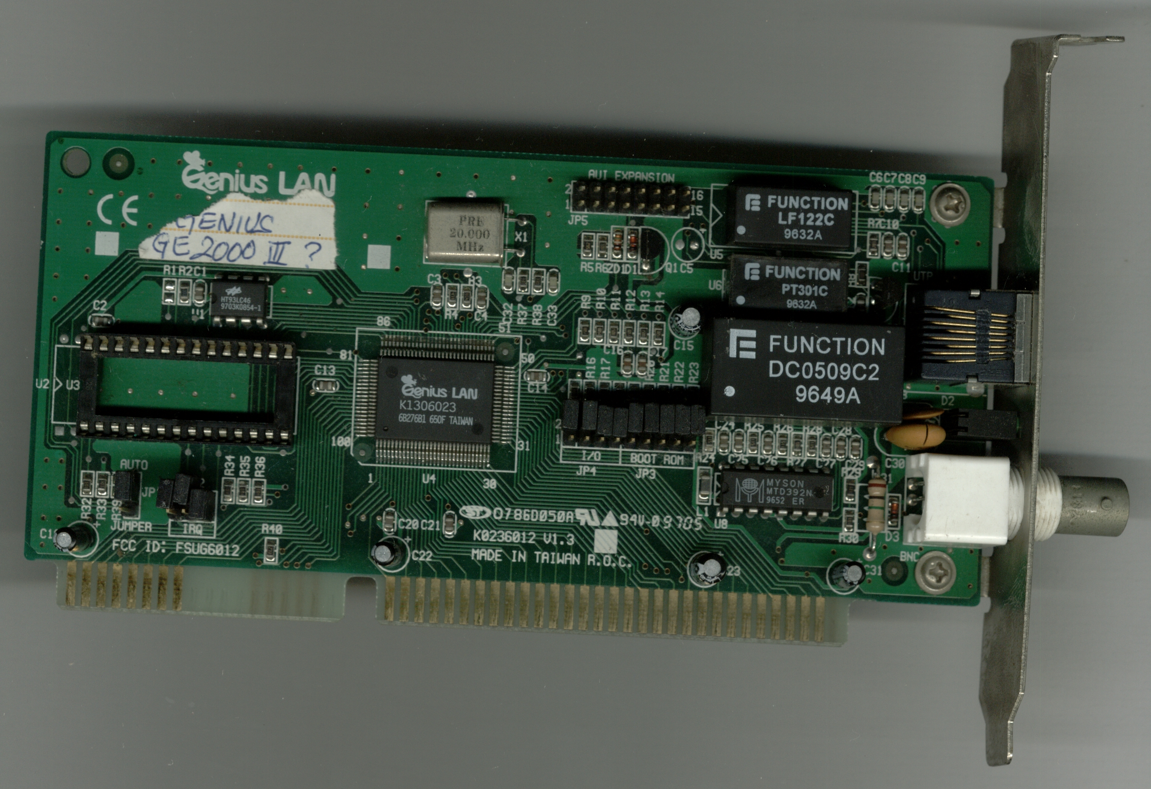 ISA Ethernet card made by KYE Systems Corp.